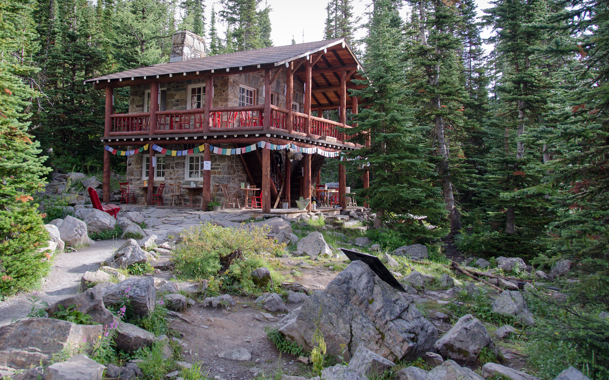 Plain of Six Glaciers Teahouse near Lake Louise